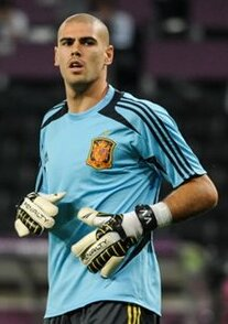 Víctor Valdés before Euro 2012 match Spain-France